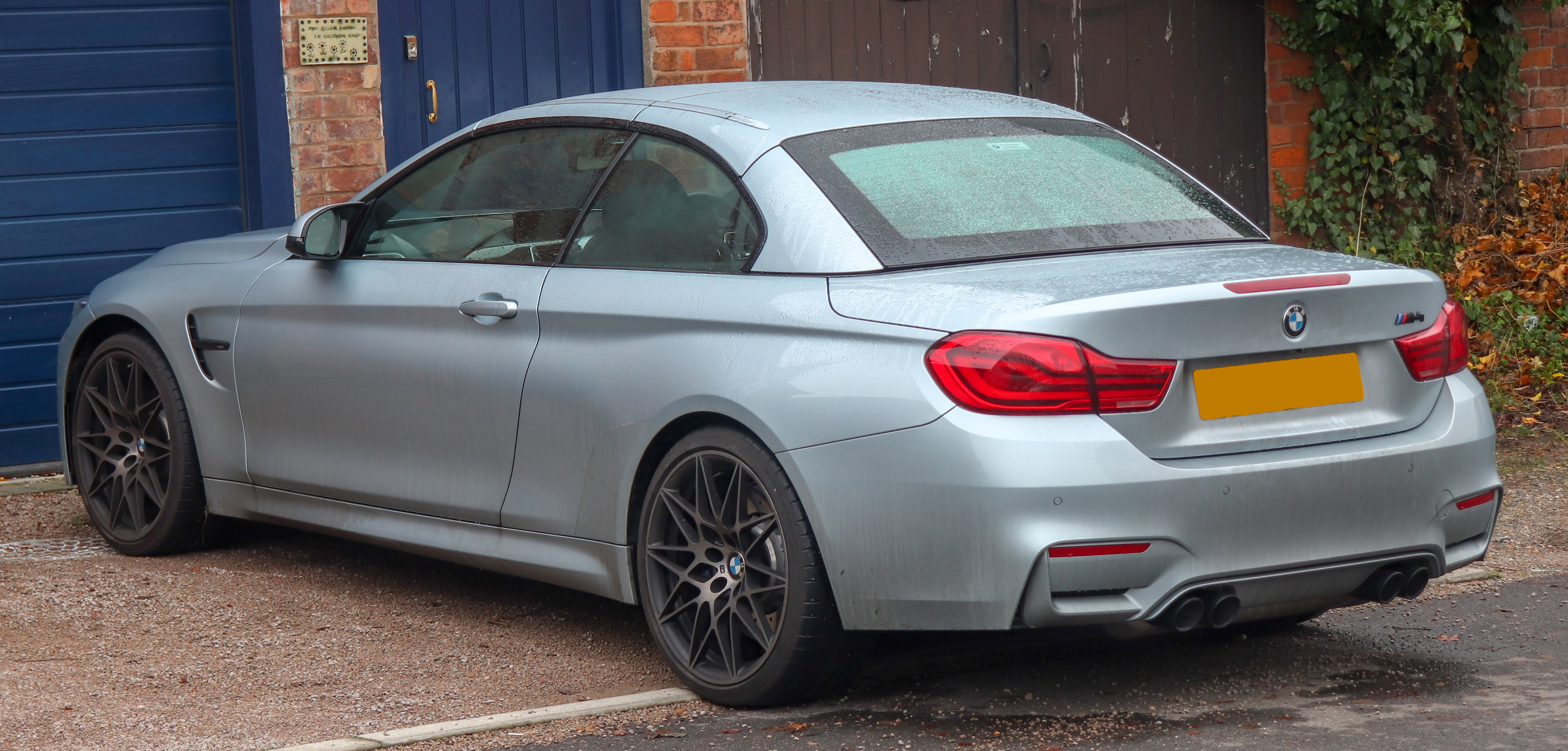 2018 BMW M4 Competition Package 3.0